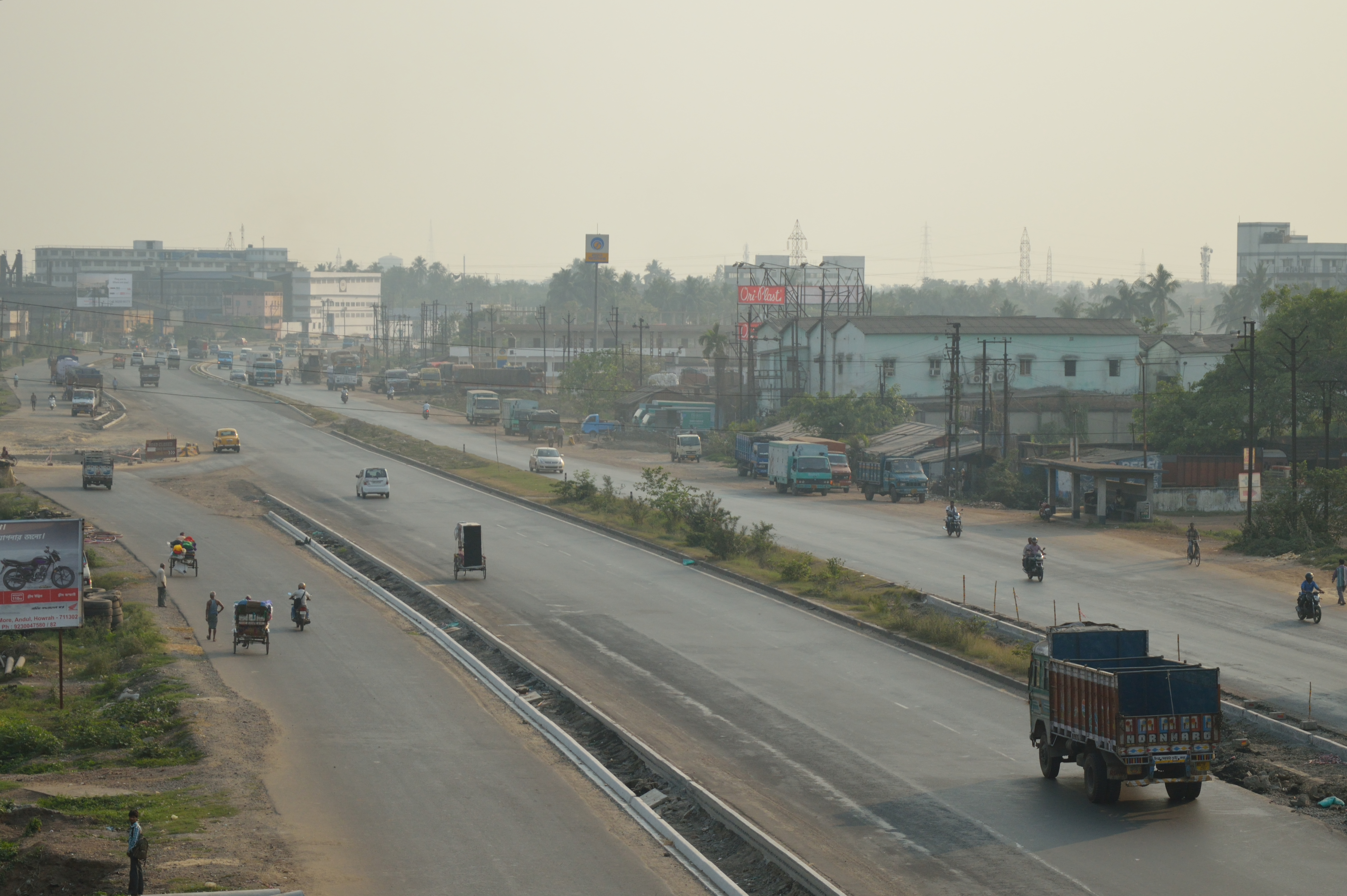 Photographed in Howrah, West Bengal, India.